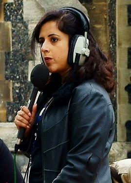 Anita Anand cropped from image titled 'Croydon Riots - the follow-up' described as 'Following the riots of 8th August 2011, which saw widespread looting and arson in Croydon, the BBC Radio 5 Live programme 'Double Take' was broadcast from Croydon and Manchester on Sunday 14th. Here, Anita Anand broadcasts outside Croydon Minster, whilst Trevor Reeves waits to be interviewed regarding the destruction of his family business, at Reeves Corner, just yards along the road.'